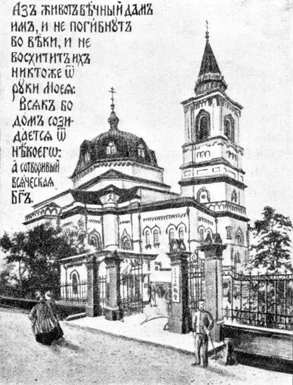 Tokyo Resurrection Cathedral